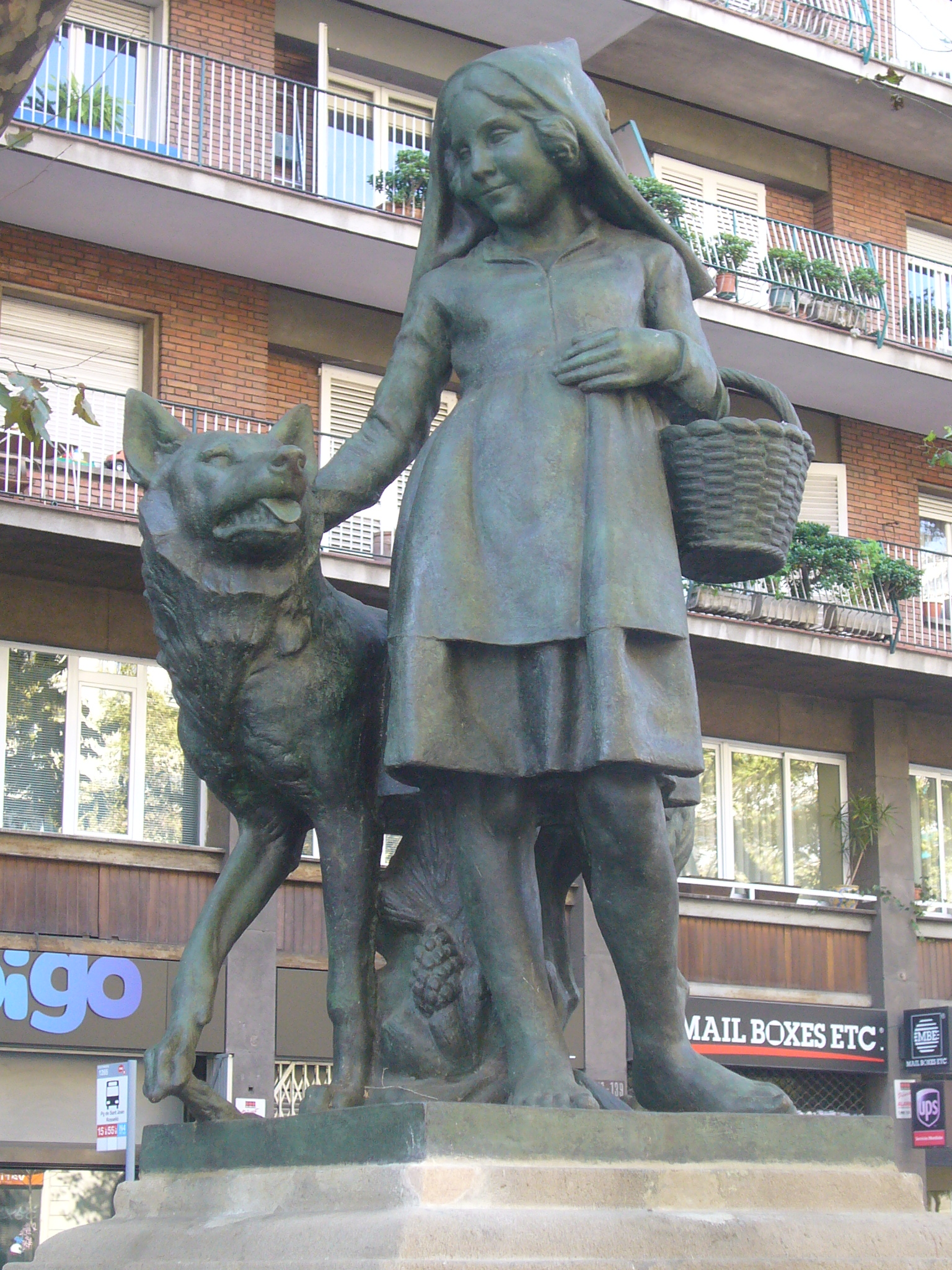 Little Red Riding Hood fountain. Located in Passeig de Sant Joan, 141, Barcelona. Sculptor: Josep Tenas (1921)